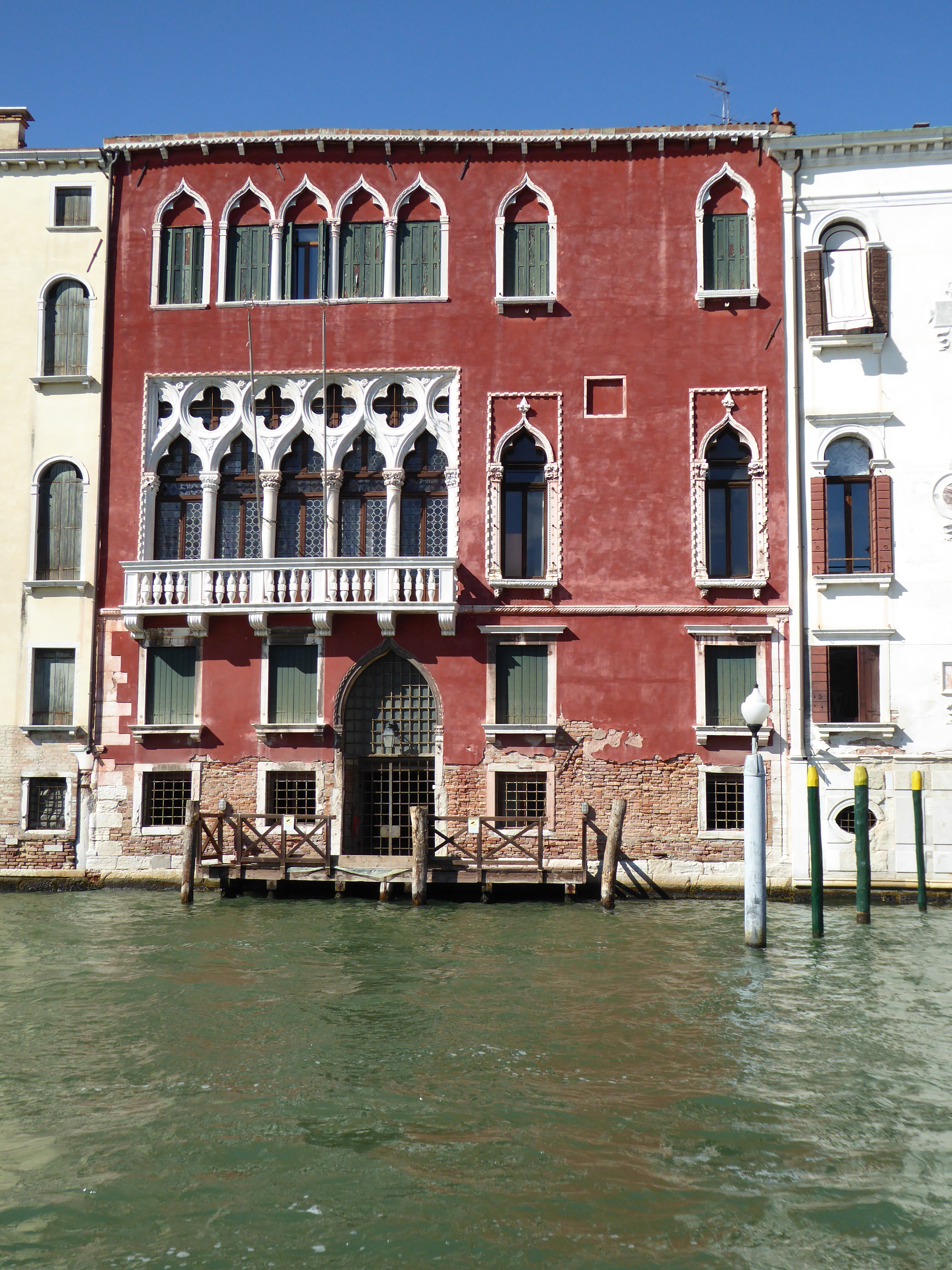 palaces along canal grande